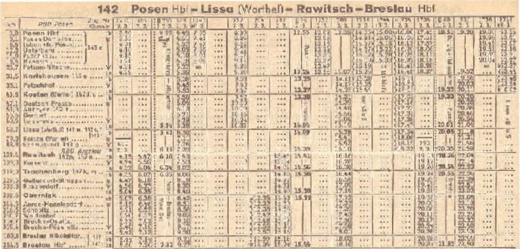 Timetable 1944/1955 Poznan Glowny - Leszno - Rawicz - Wroslaw Glowny